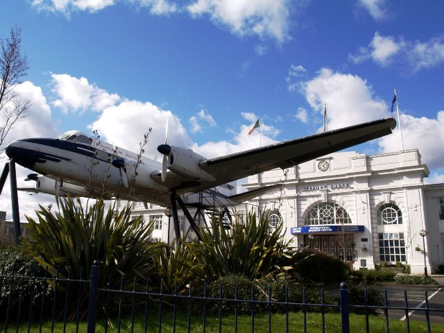 de Havilland DH.114 Heron. Airport House at the old Croydon Aerodrome